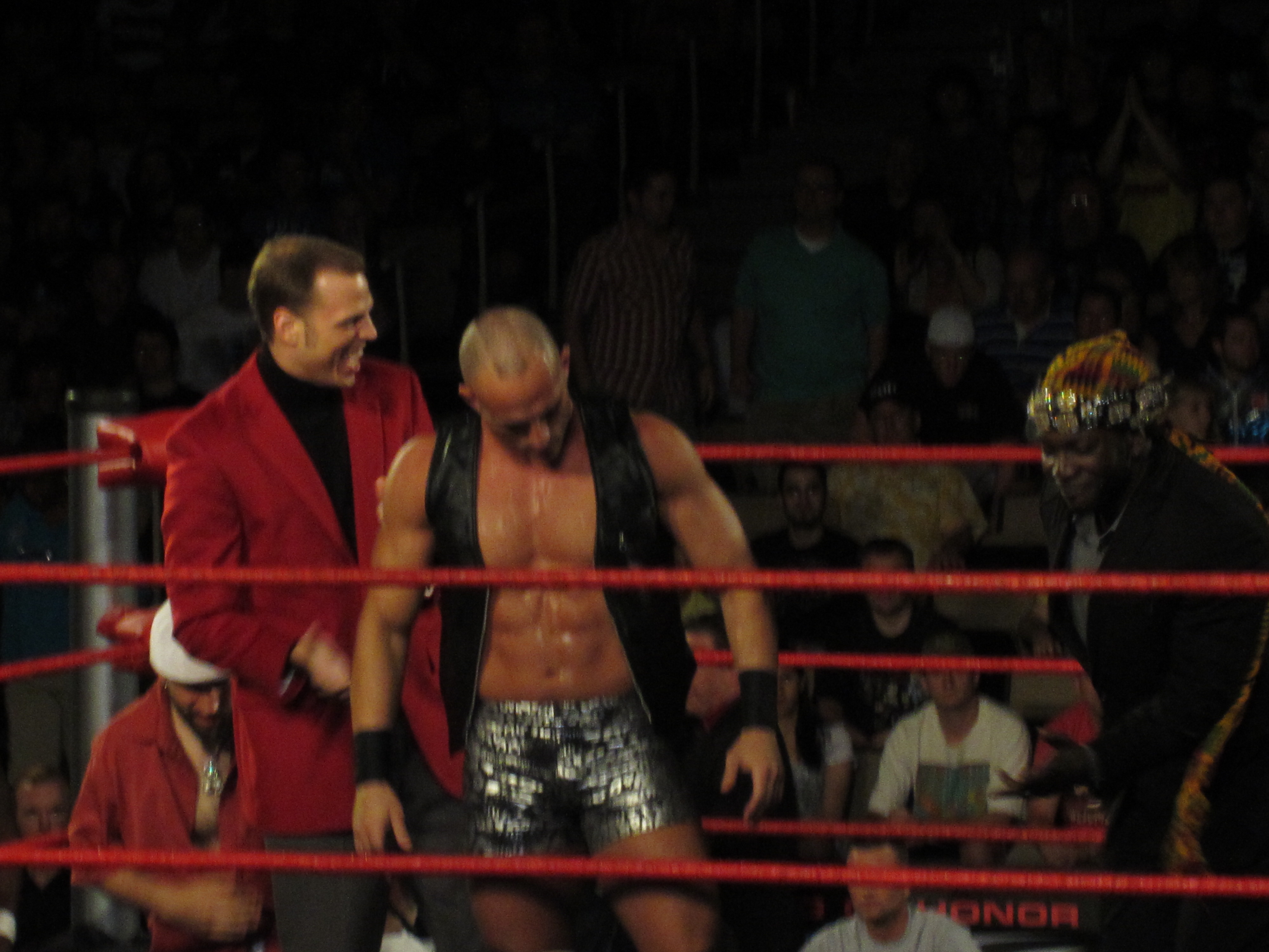 The Embassy members: (from left to right) R.D. Evans, Tommaso Ciampa, and Prince Nana in the ring at an ROH event on March 30, 2012.